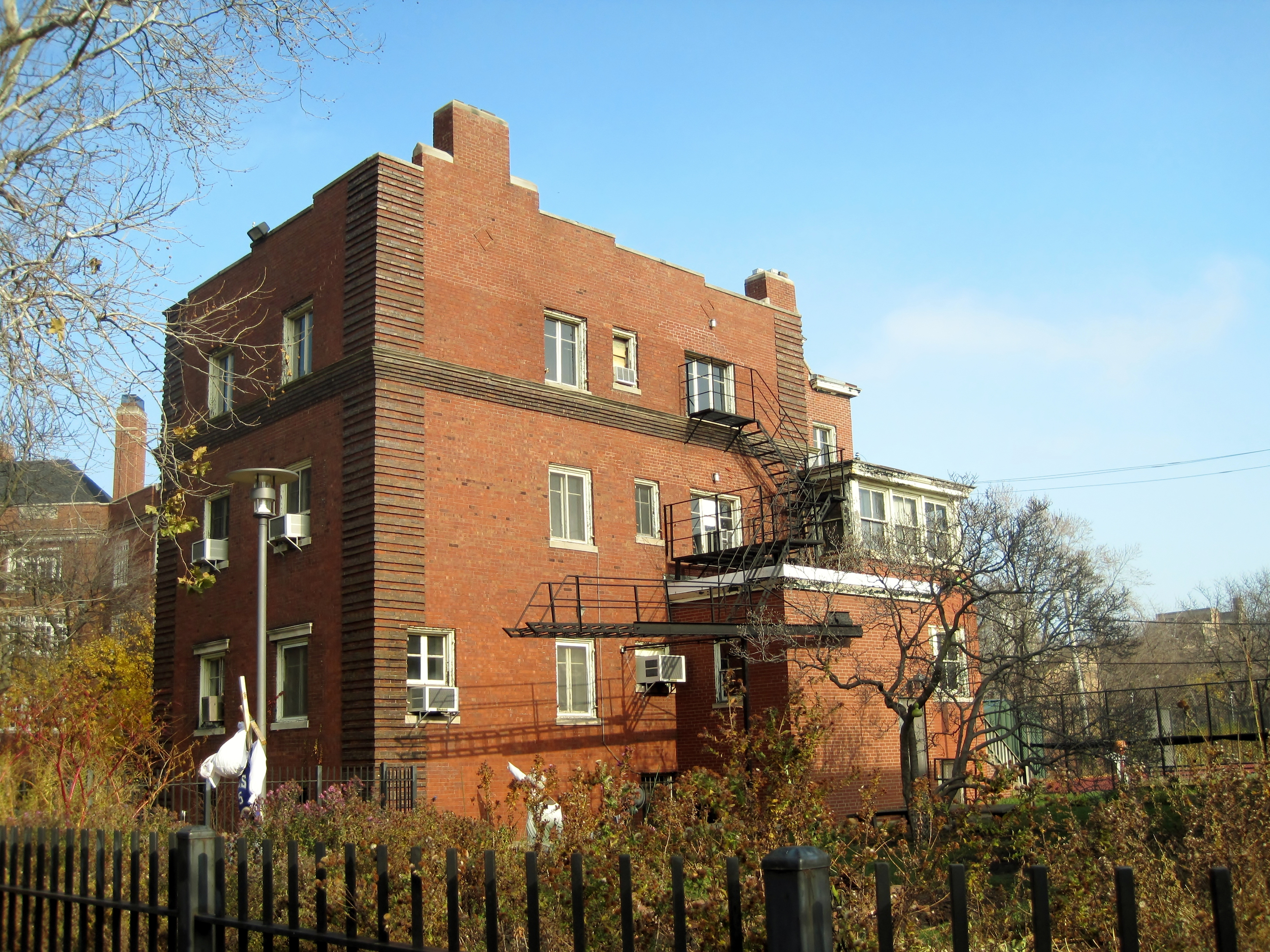 The Frank R. Lillie House in Chicago, a national landmark (1904). Lillie received degrees from the University of Toronto and Clark University. He was one of the first students at the University of Chicago, and was given a Ph.D. in Zoology from the institution in 1894. He taught at the university from 1906 to 1935. He simultaneously served as President of the National Academy of Sciences and the Chairmen of the US National Research Council, the only person to ever do so. He was also the director of the Woods Hole Marine Biological Laboratory. He is known as the father of embryology, determining that sex differentiation was controlled by circulating sex hormones, leading to the development of the endocrinology field. It was previously unknown how indifferent embryos developed into specific sexes.